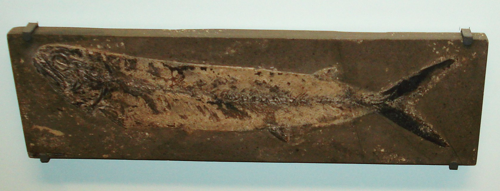 fossil of euthynotus